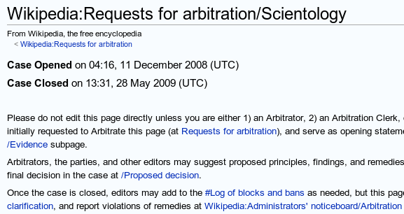 Screenshot of English Wikipedia, from Arbitration Committee case, Scientology.